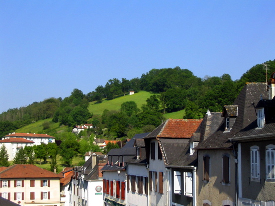 A street of Maule, one of the seven cities of Euskal Herria.